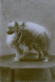 Photograph of Ch. The Sable Mite, multiple best champion at crufts in the early 20th century.